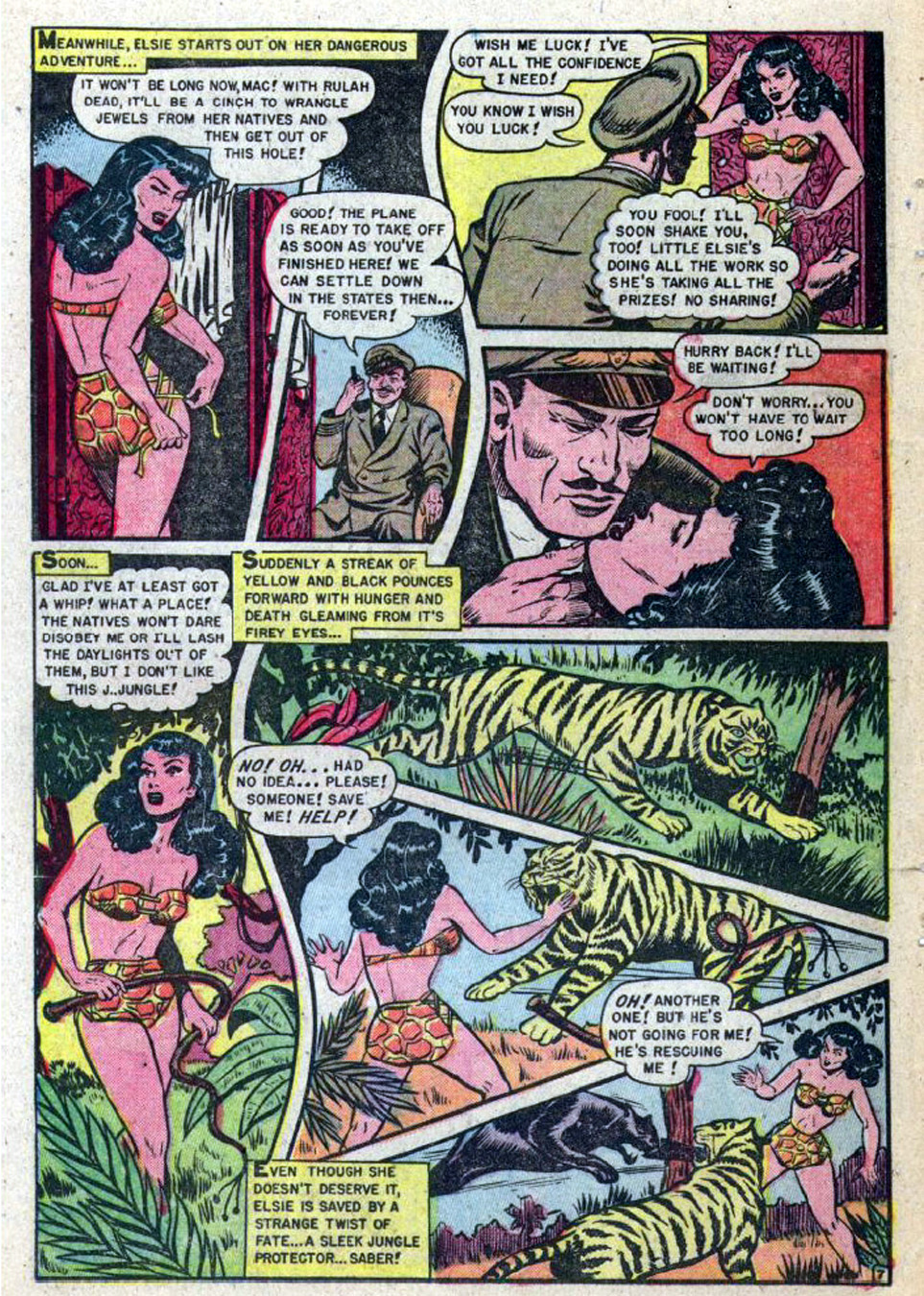 Rulah #24, page 8 March 1949